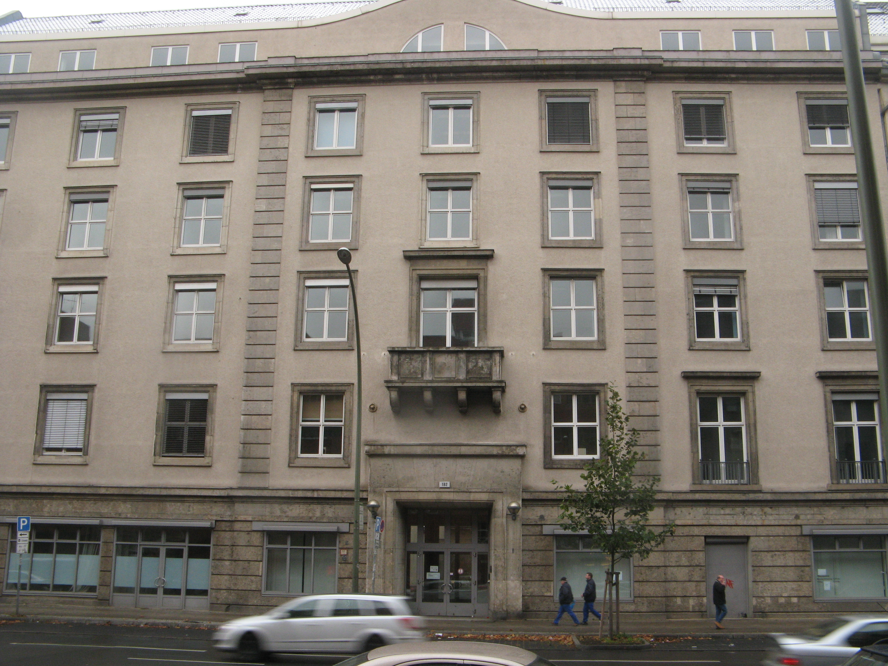 berlin potsdamer strasse 182, former headquarters of the Deutsche Arbeitsfront